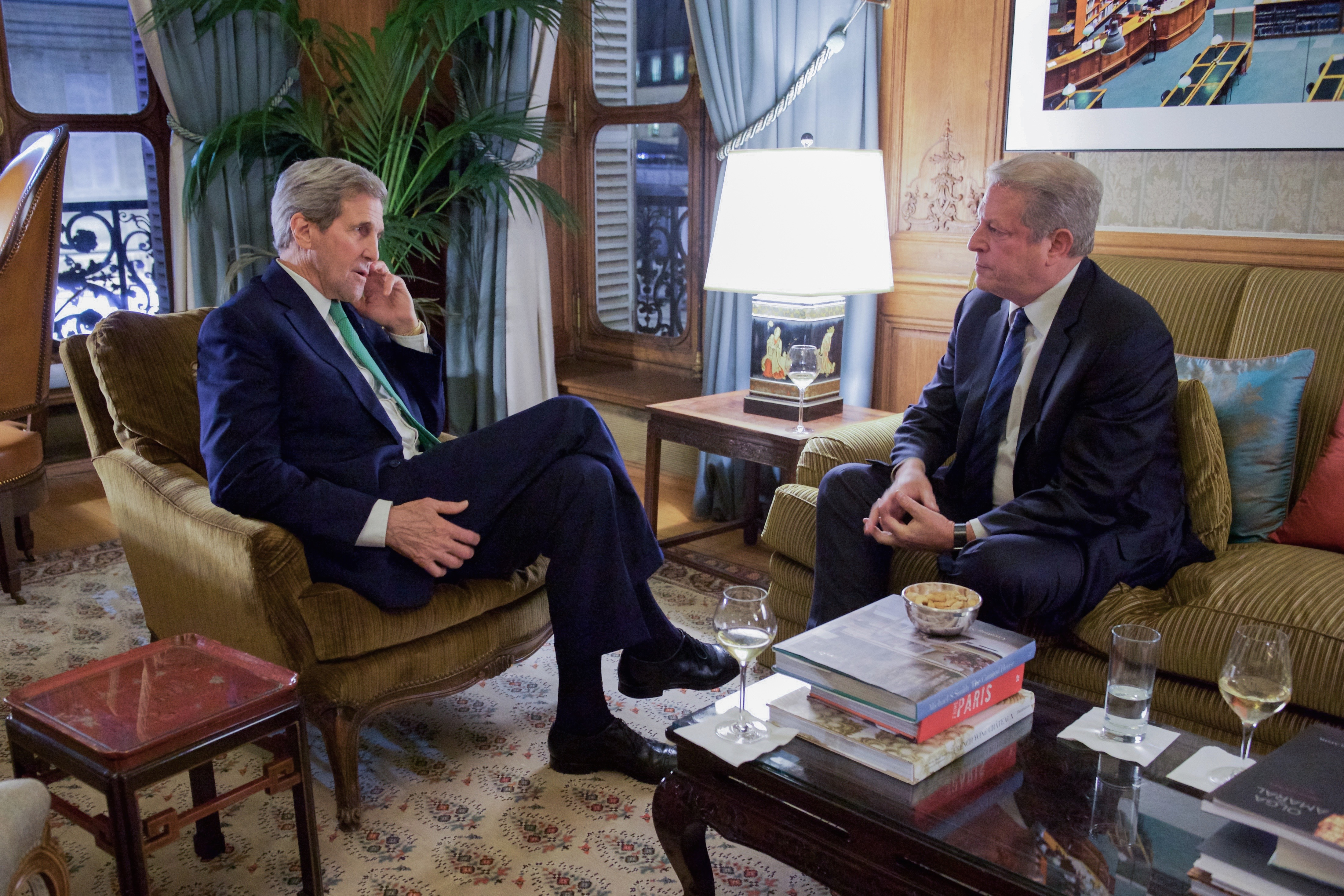 U.S. Secretary of State John Kerry chats with former Vice President Al Gore, on December 7, 2015, at the U.S. Ambassador's Residence in Paris, France, amid the COP21 climate change summit. [State Department photo/ Public Domain]